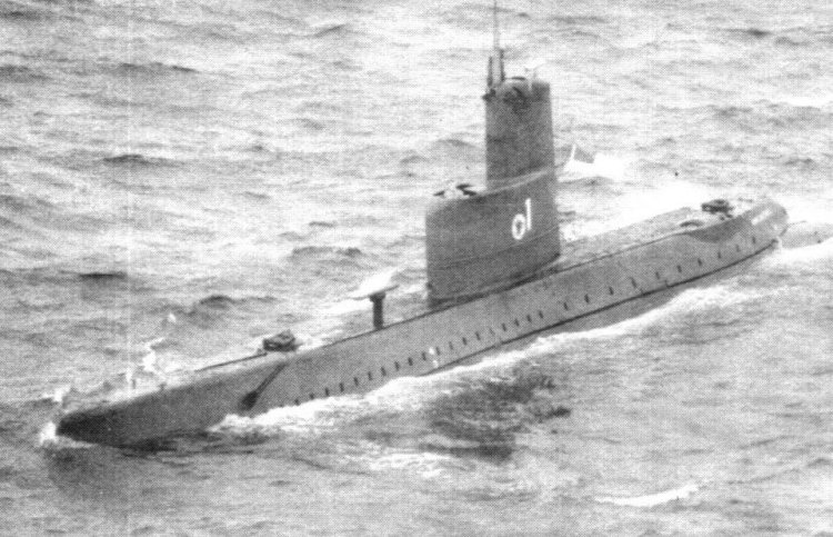 United States Navy training submarine